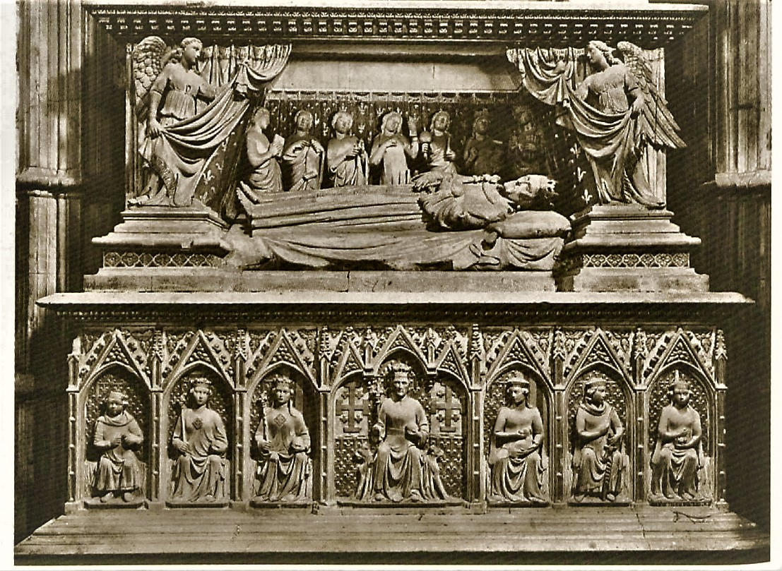 Napoli, basilica di Santa Chiara, sepolcro di Roberto d'Angio, prima del bombardamento dell' agosto 1943 (a).jpg